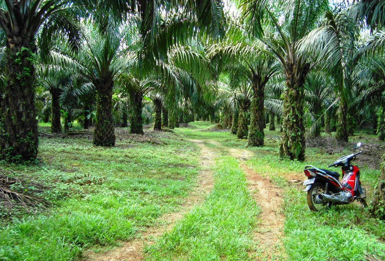 Traditional oil palm plantations that are managed and owned by ordinary people in Kampar regency, Riau.